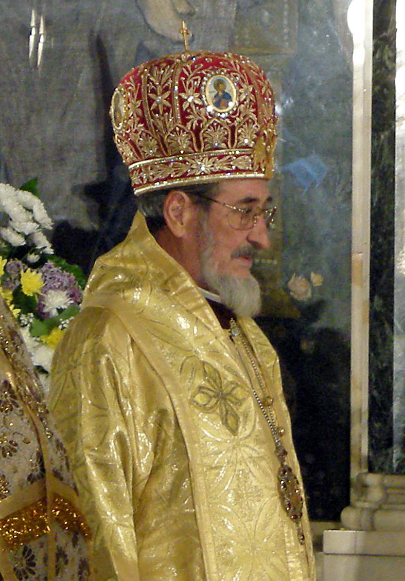 Maxim - His Holiness, the Metropolitan of Sofia and Patriarch of All Bulgaria.